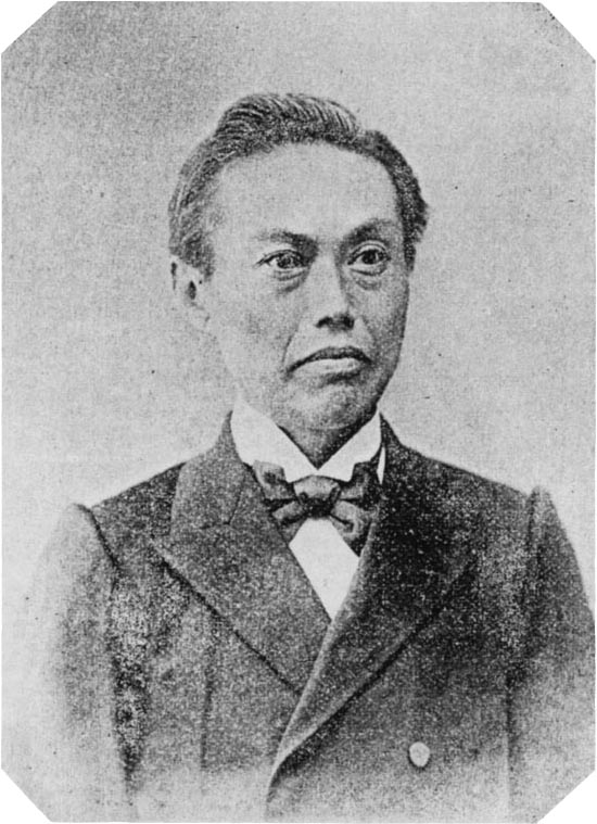 Mr. Tomoo Katsuura, director of the Tokyo Prefectural First Middle School.